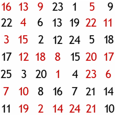 An example of a colored number table that is used in deconcentration excercises. Searching for a given colored number in a regular manner (namely by scanning the table with concentration) requires some time. Deconcentration of attention allows finding any requested colored number instantaneously.